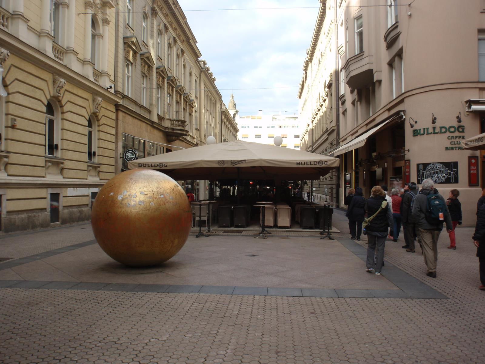 Grounded Sun - This metal orb was created by sculptor Ivan Kožarić in 1971. Thirty-three years later it would become the centre of Zagreb solar system.